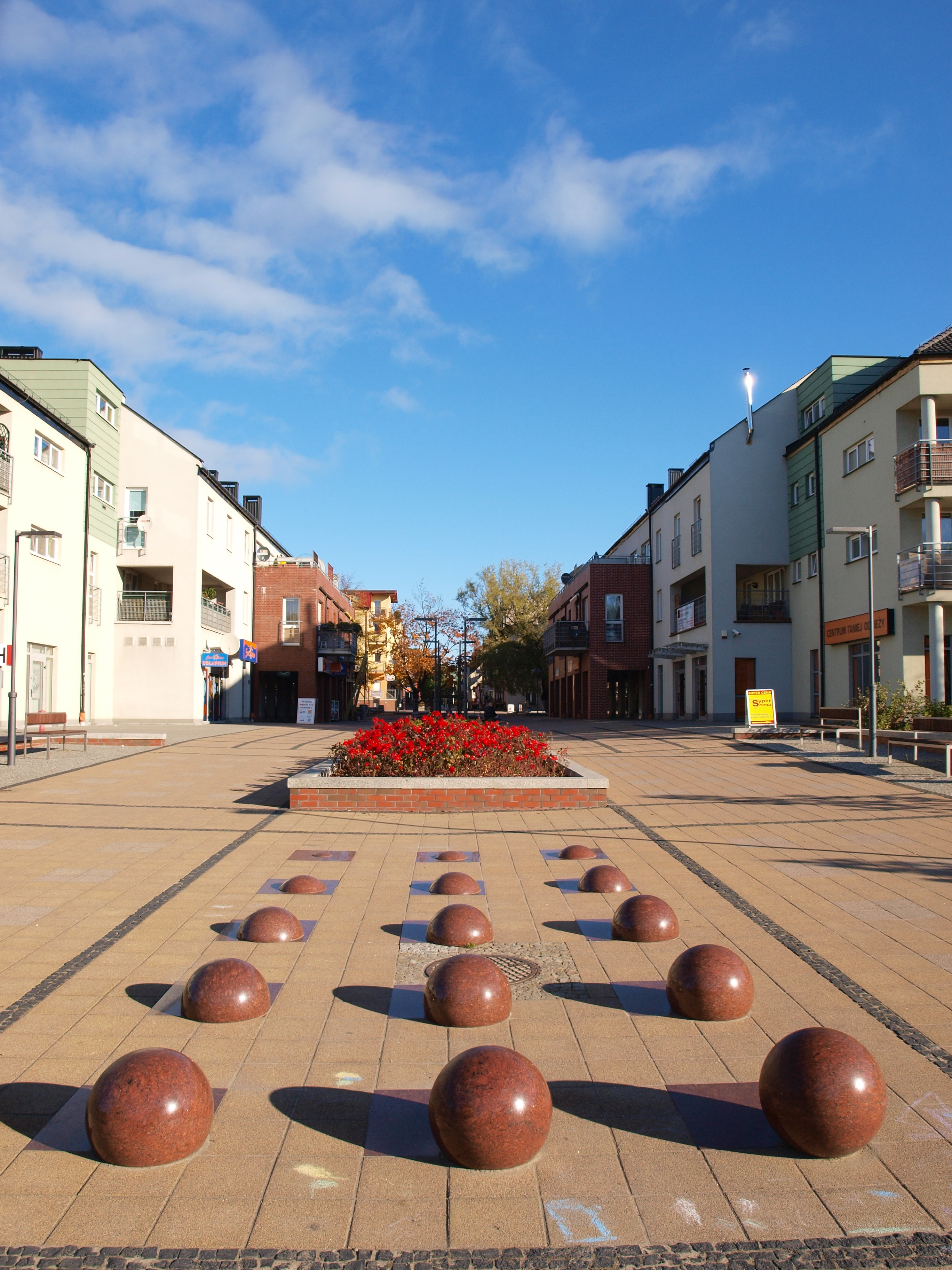 Modern Centre of Pruszcz Gdanski